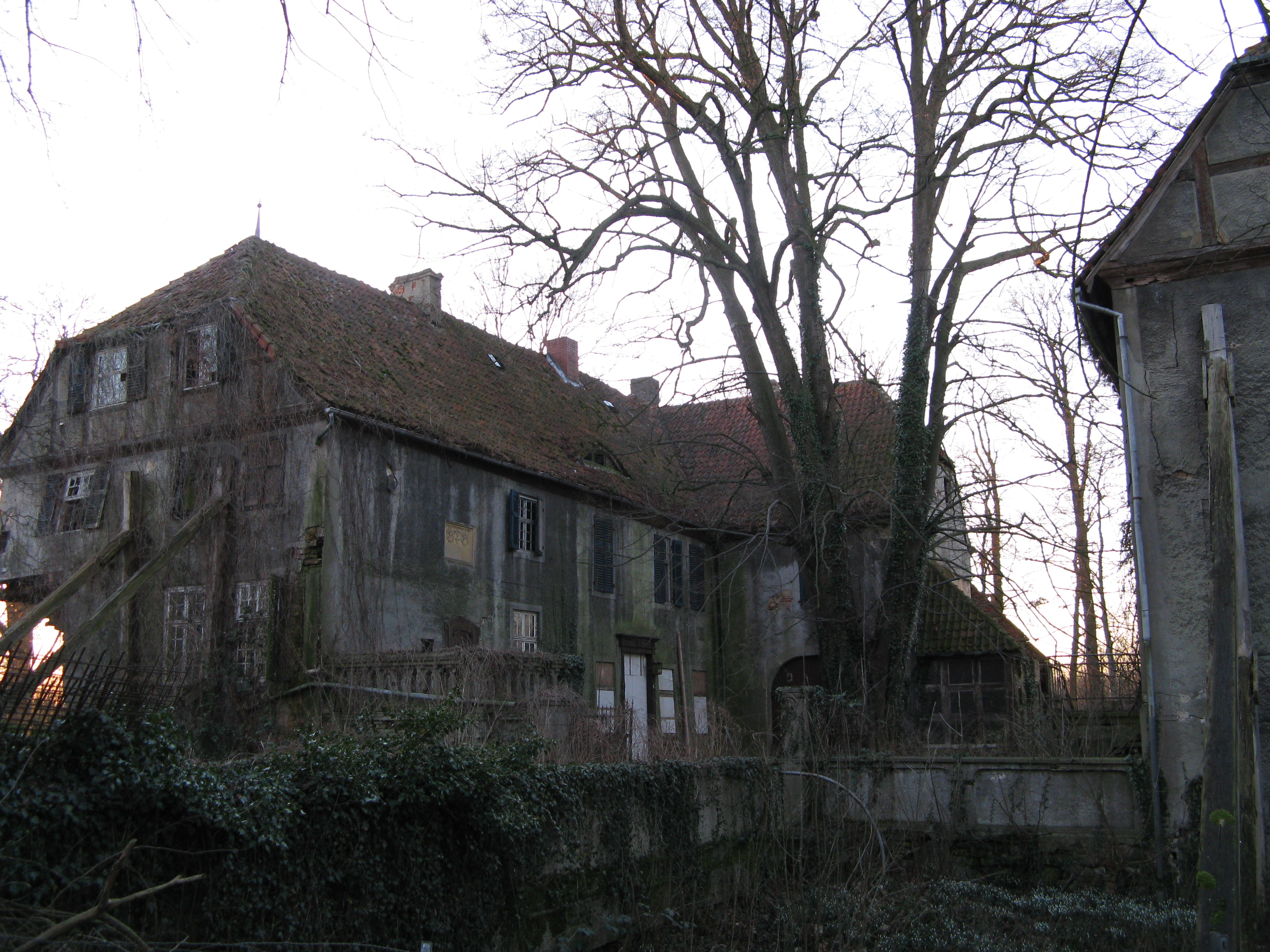 This image shows a heritage building in Germany, located in the North Rhine-Westphalian city Espelkamp (no. 6).